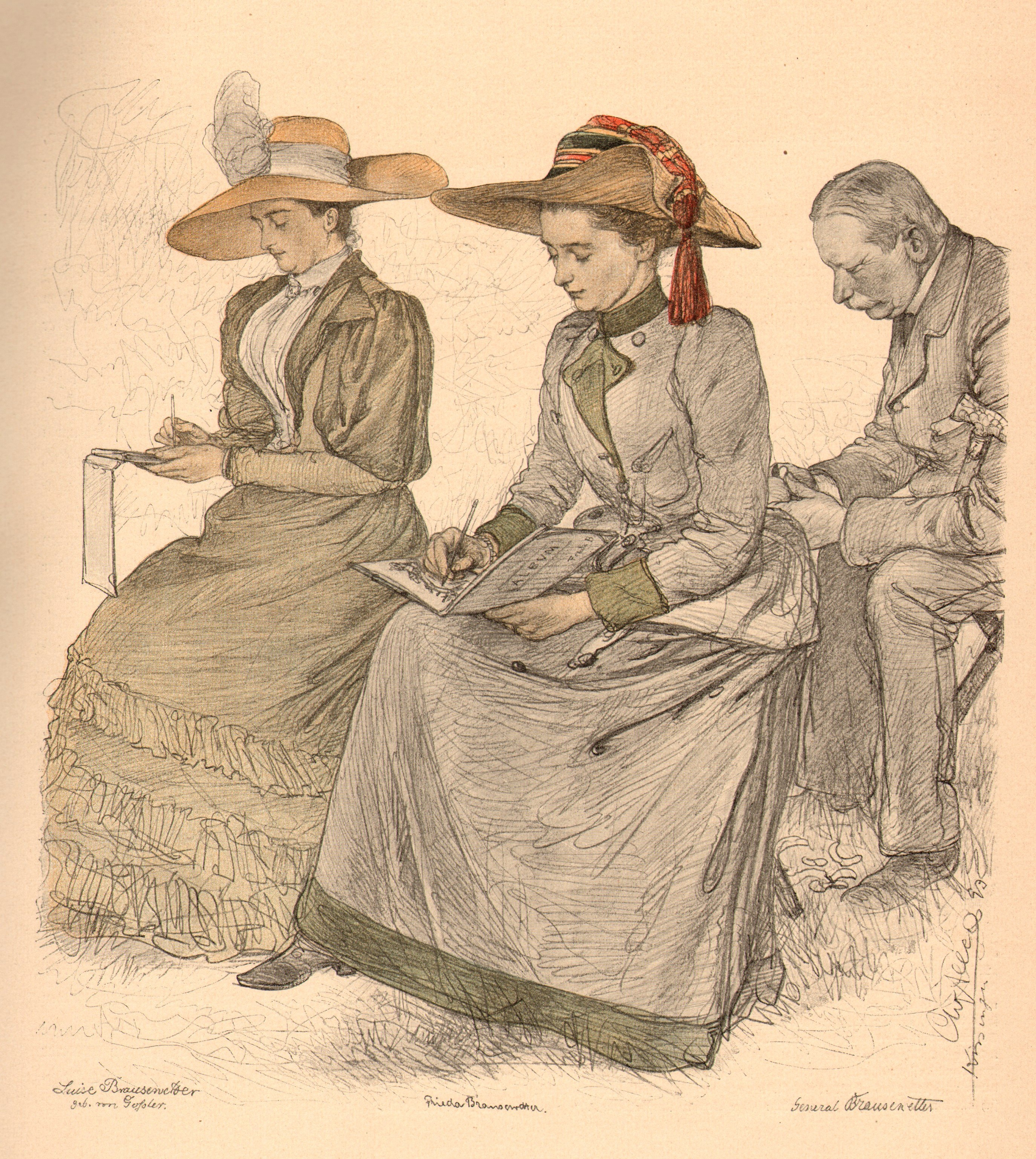 Writer Frieda Magnus-Unzer (1875-1966) (center) with her parents.